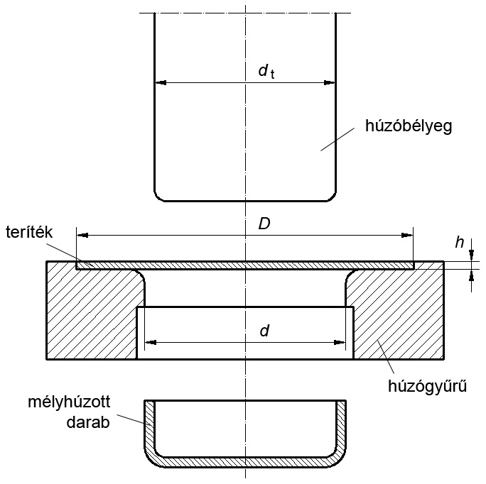 The principle of the deep drawing